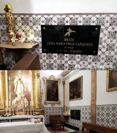 Luisa Maria Frias Cañizares tombstone